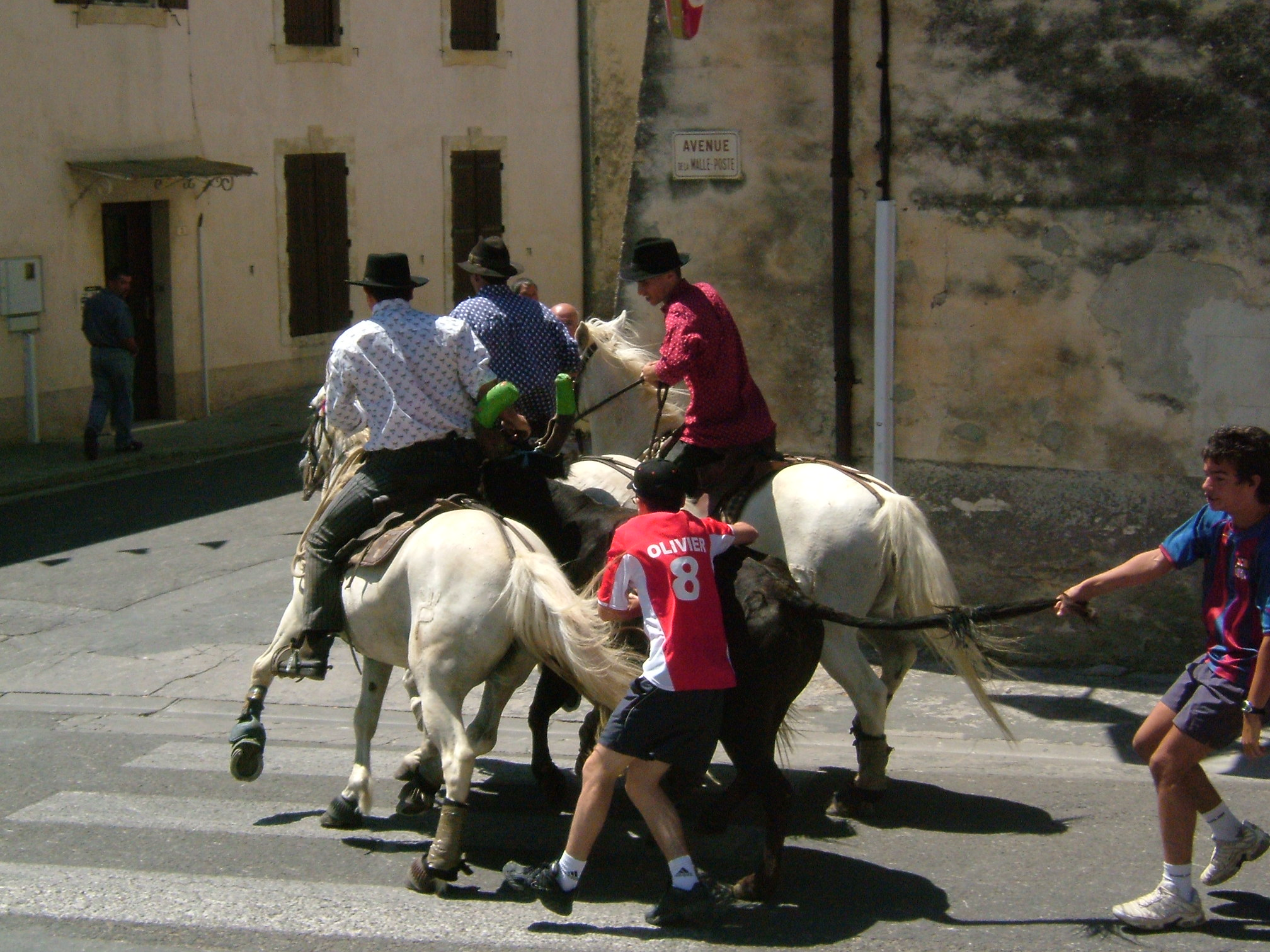 At an bandido in 30111 Congenies. The guardians on horse back are riding at speed with one bull. The boys have reached the bull but have not got the weight needed to stop it. The Bull only needs to turn the corner and run a further 200m before he makes it to the waiting truck.